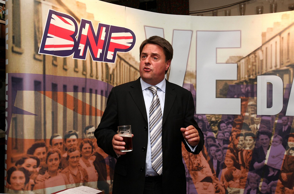 Nick Griffin MEP speaks at a British National Party press conference in Manchester.